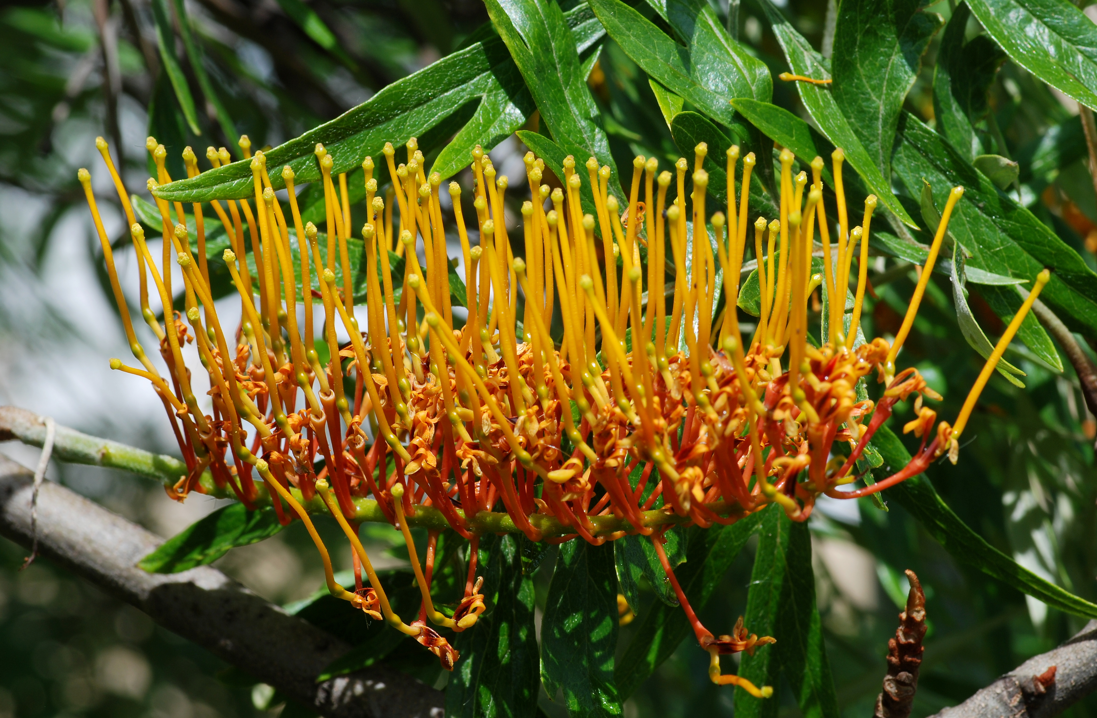 Flower of Grevillea robusta, near Lisbon, Portugal.